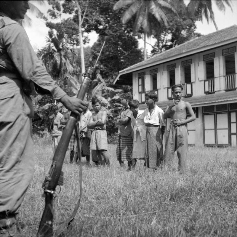 The British Reoccupation of Malaya Suspects under guard during an operation by the 53rd Indian Brigade (25th Indian Division) to round up bandits who had abducted a number of civilians from the town of Kuala Kangsar. The subsequent murder of a number of the abductees led to a serious crackdown on the bandits by the British authorities.